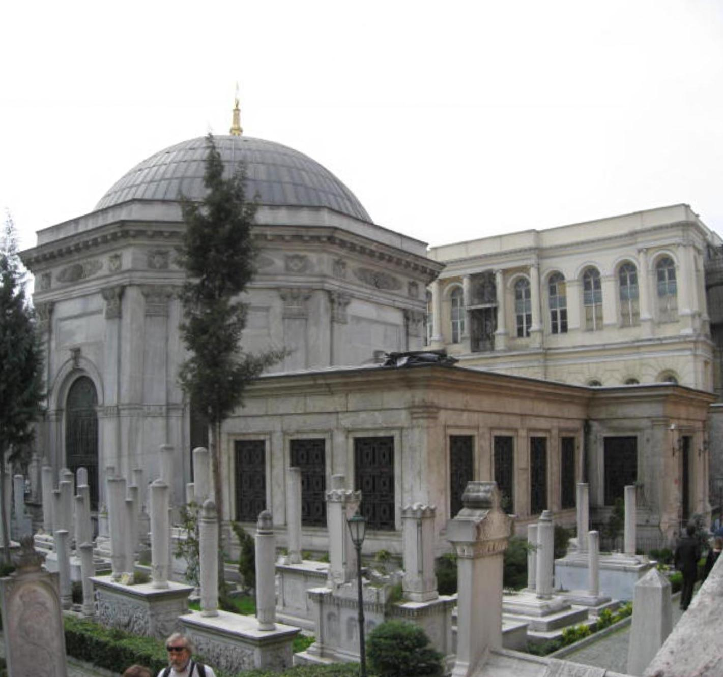 The mausoleum (türbe) of Sultan Mahmud II (1785-1839), Sultan Abdülaziz (1830-1876) and Sultan Abdülhamid II (1842-1918), located at Divan Yolu street.